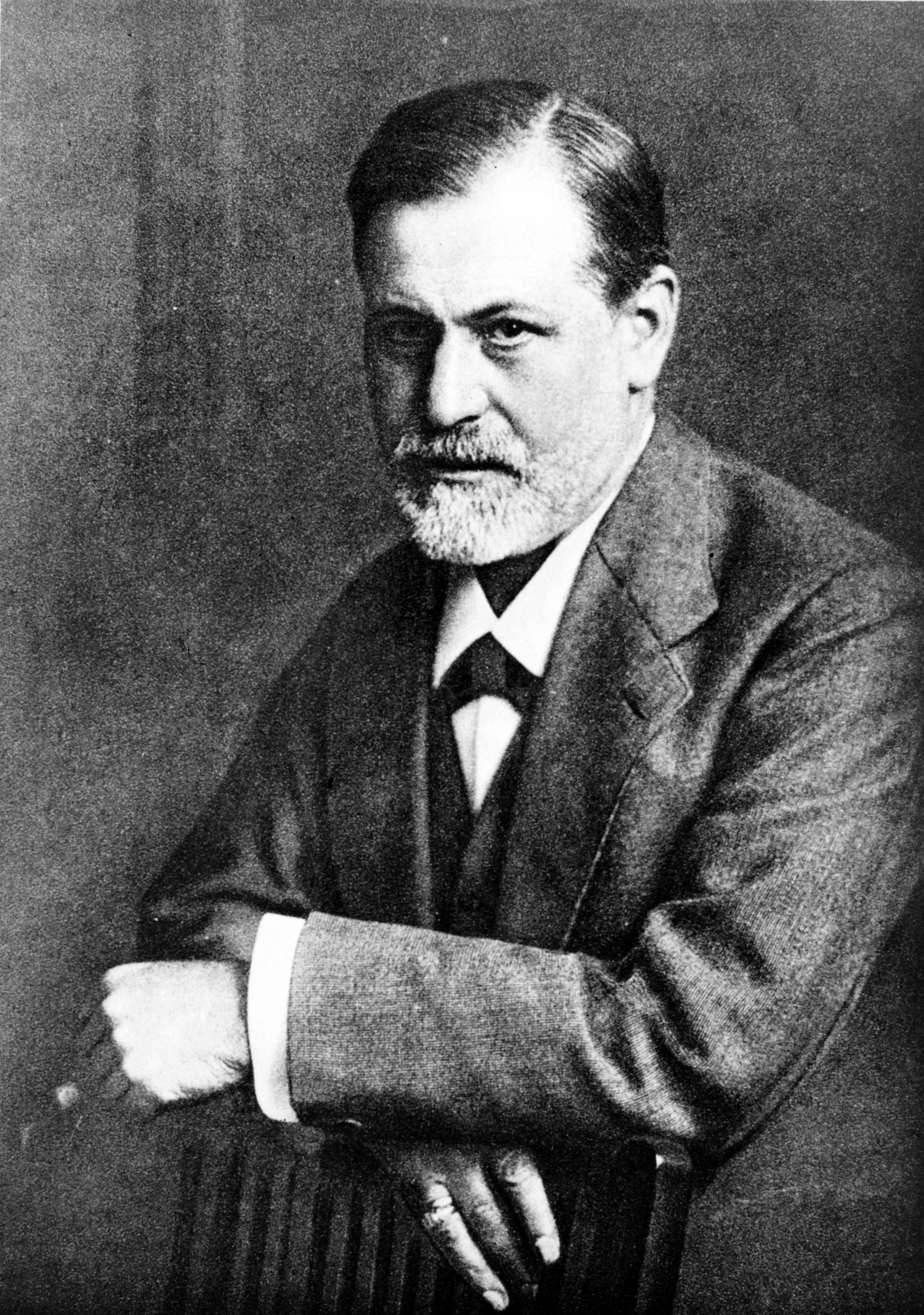 Sigmund Freud, half-length portrait, facing slightly left, leaning on back of chair